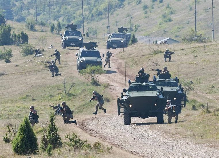 Military Montenegro